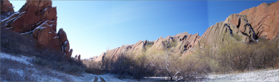 Roxborough State Park